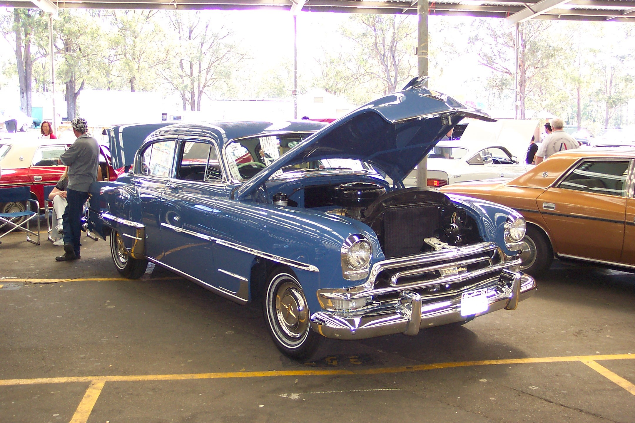 1953 Chrysler New Yorker Deluxe sedan. Taken at the 2003 New South Wales All Chrysler Day, held at Fairfield Showground, Prairiewood, Sydney. Note: a grill clearly indicates, that it is in fact model 1954.